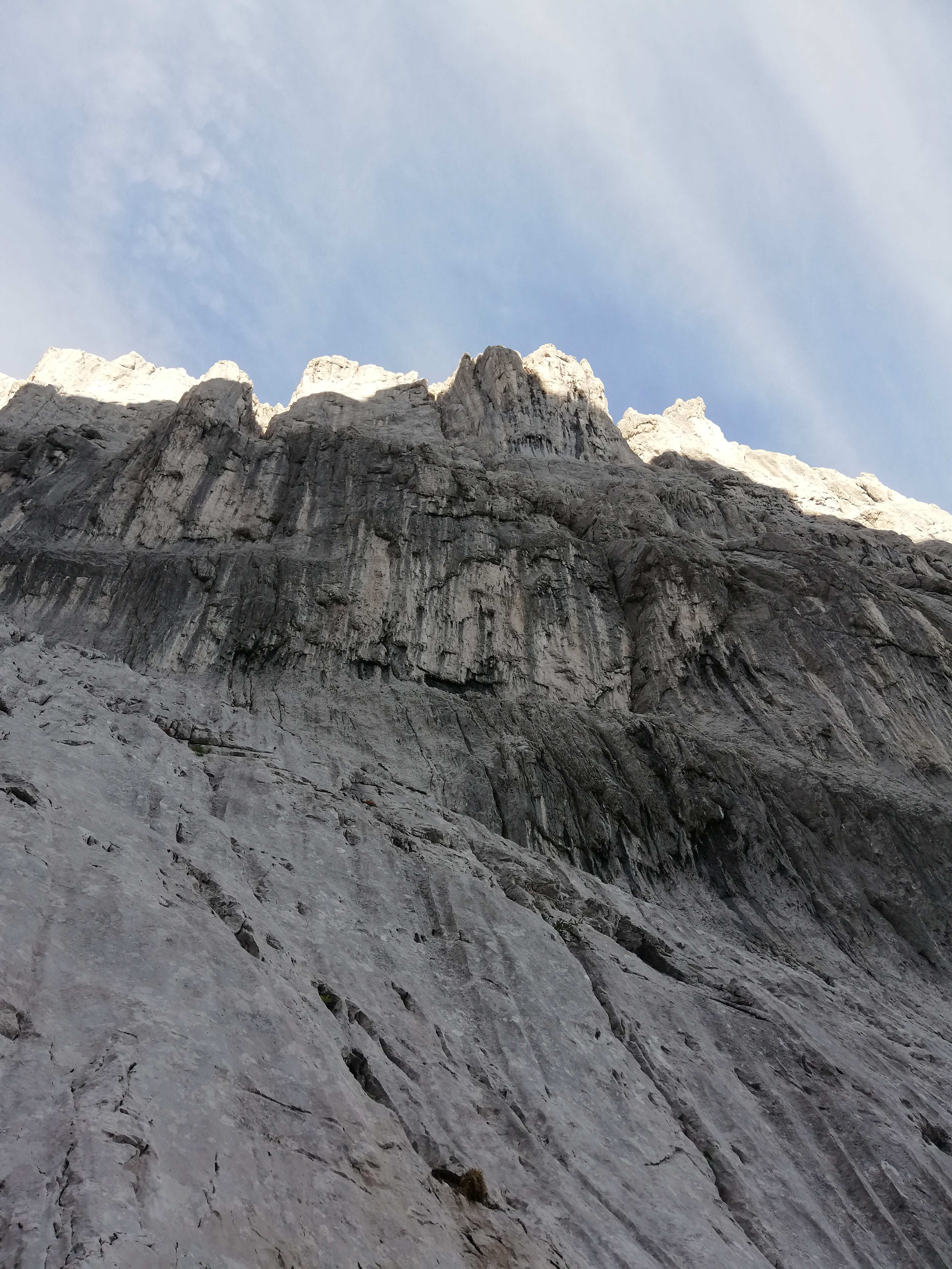 The "Schmuck-Kamin" seen from the beginning of the route (crack line on the right